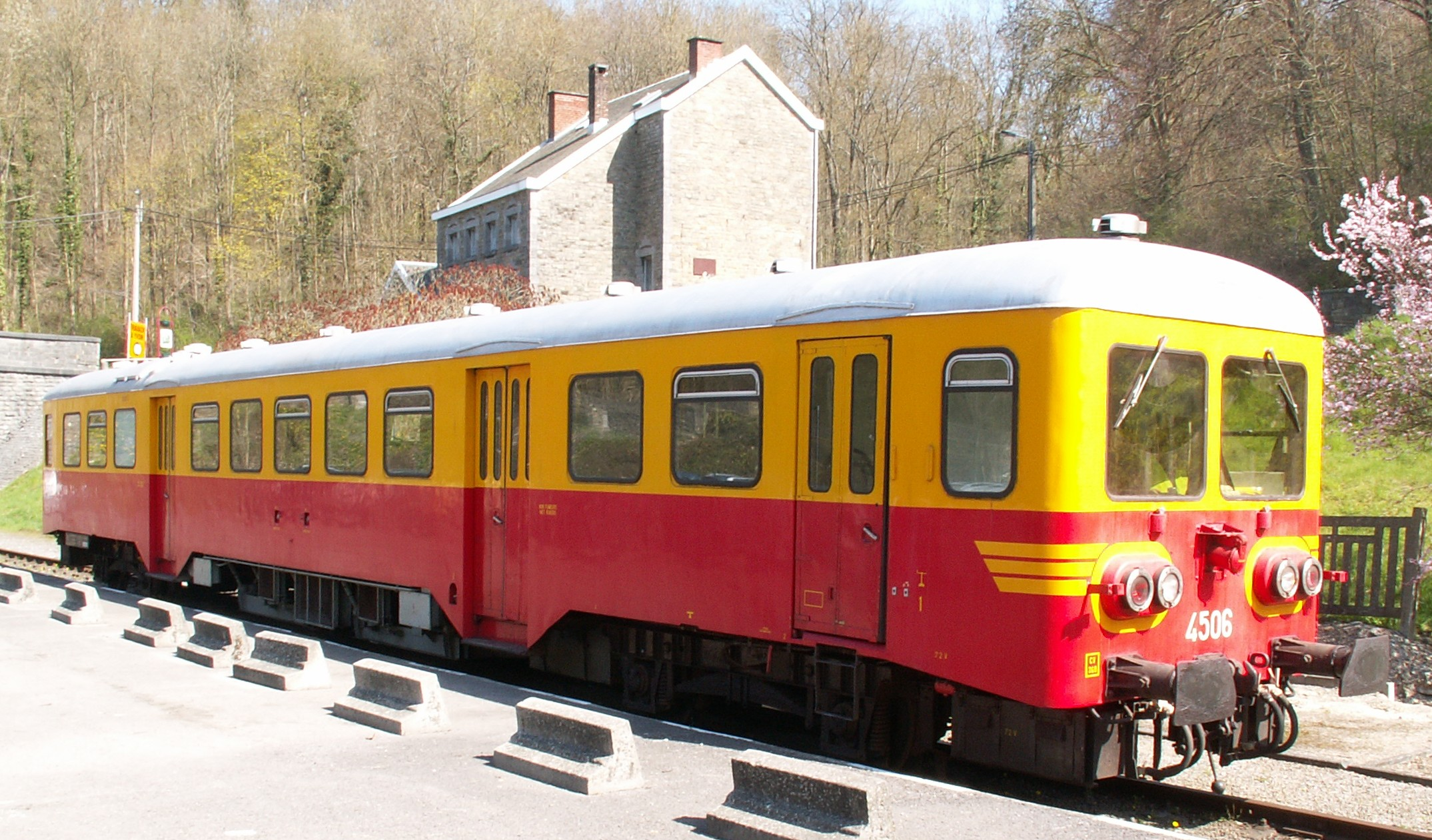 former SNCB 4506 railcar, now owned by PFT heritage railway and used on the "Chemin de fer du Bocq" (belgian railway line 128), as seen in Spontin station after a charter service to Purnode.